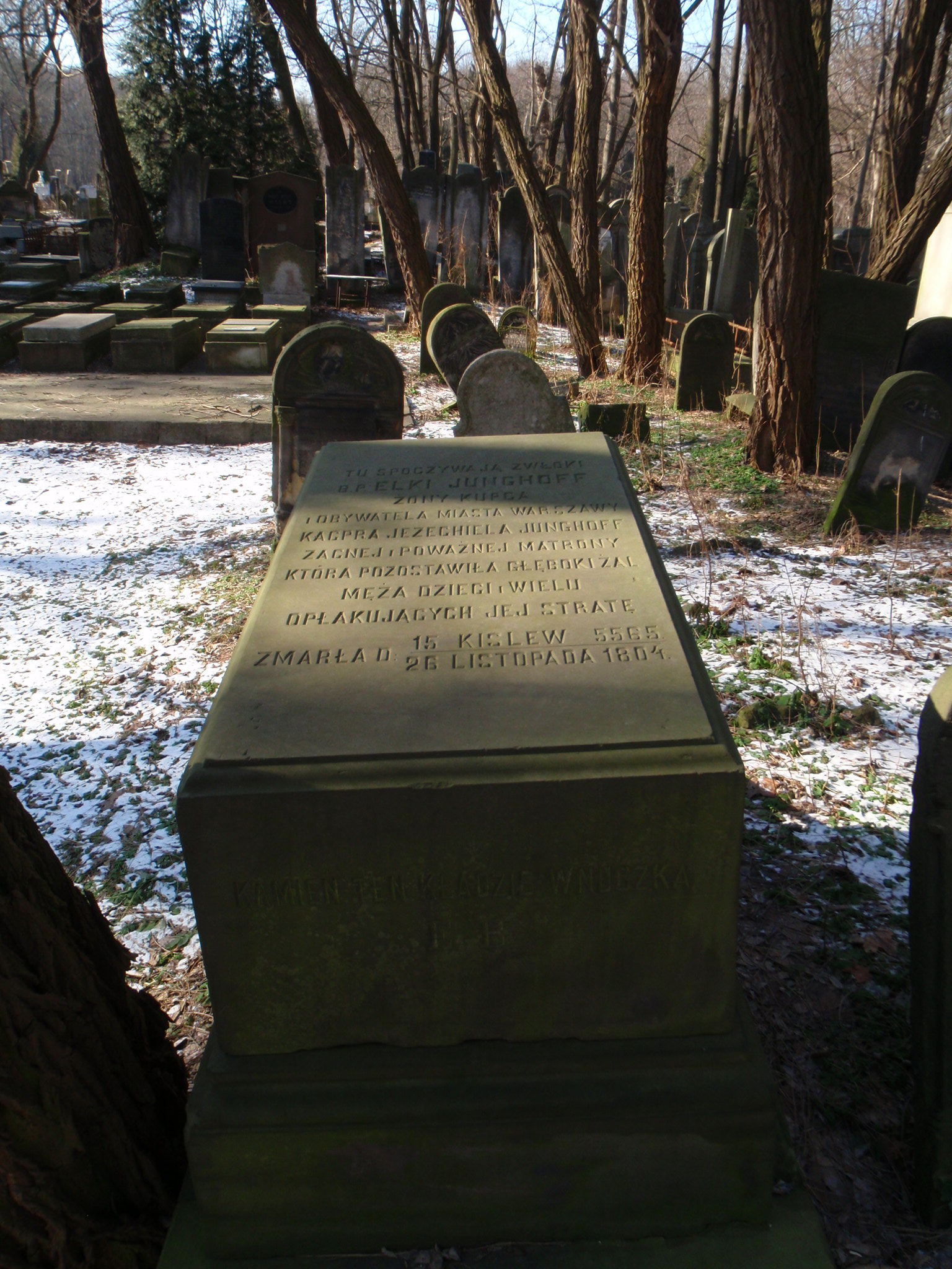 Grave of Elka Junghoff